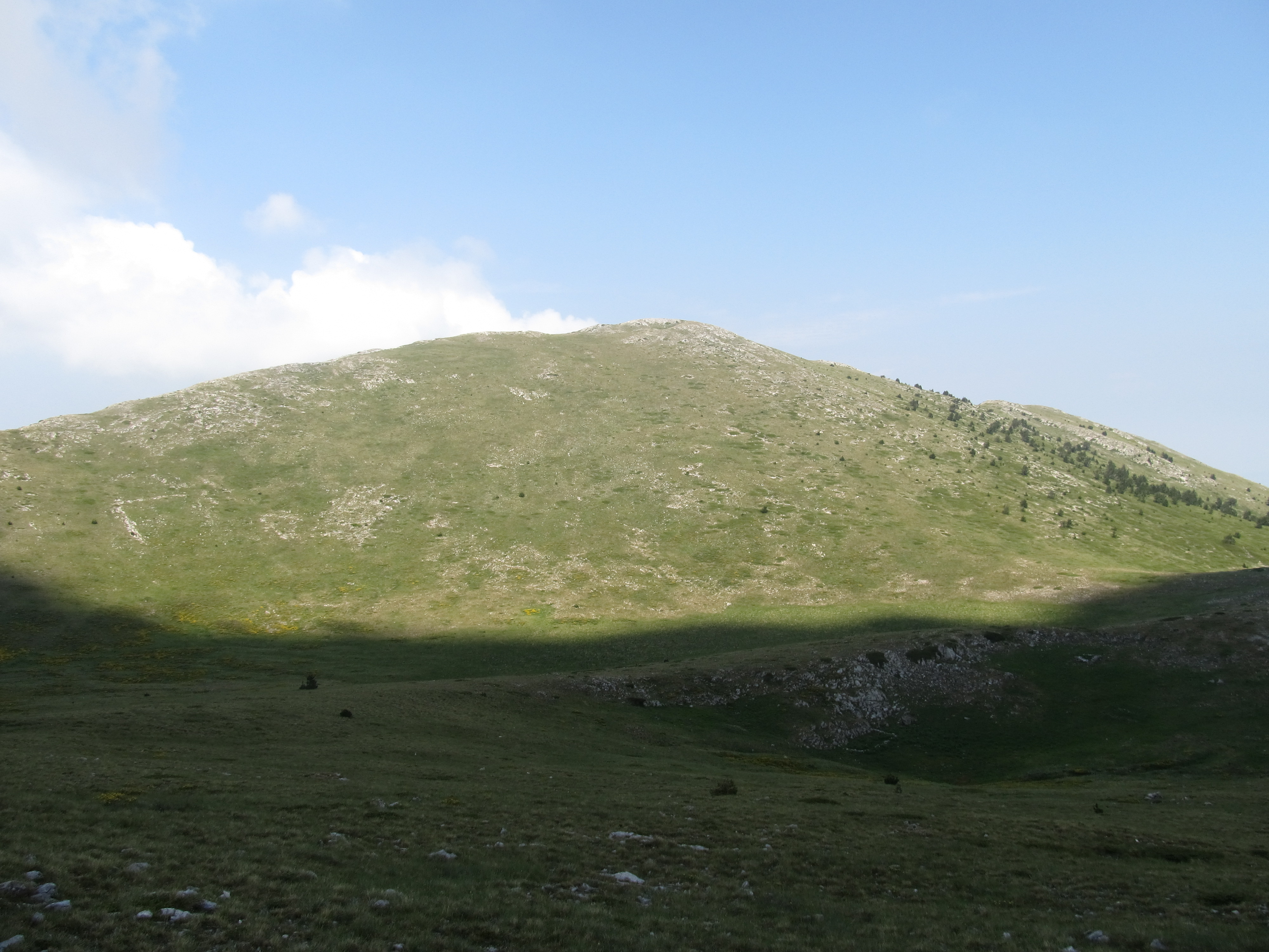 Shabran peak in Alibotush mountains, Bulgaria